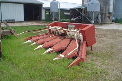 This is a chopping head for a forage harvester. It is a 6 row head designed to chop corn into silage. This was taken at my Dad's farm in July of 2004.